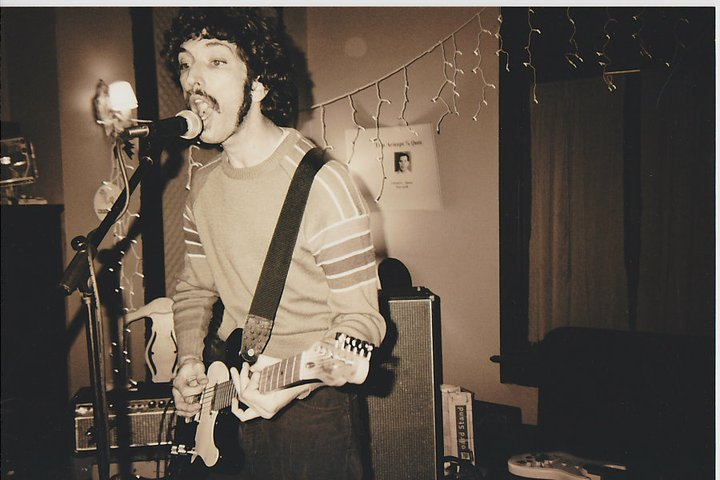 Dave from Swearing at Motorists.